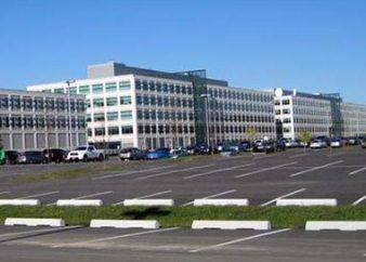 The new (2010) Headquarters building of US Army CECOM at Aberdeen Proving Ground, MD USA